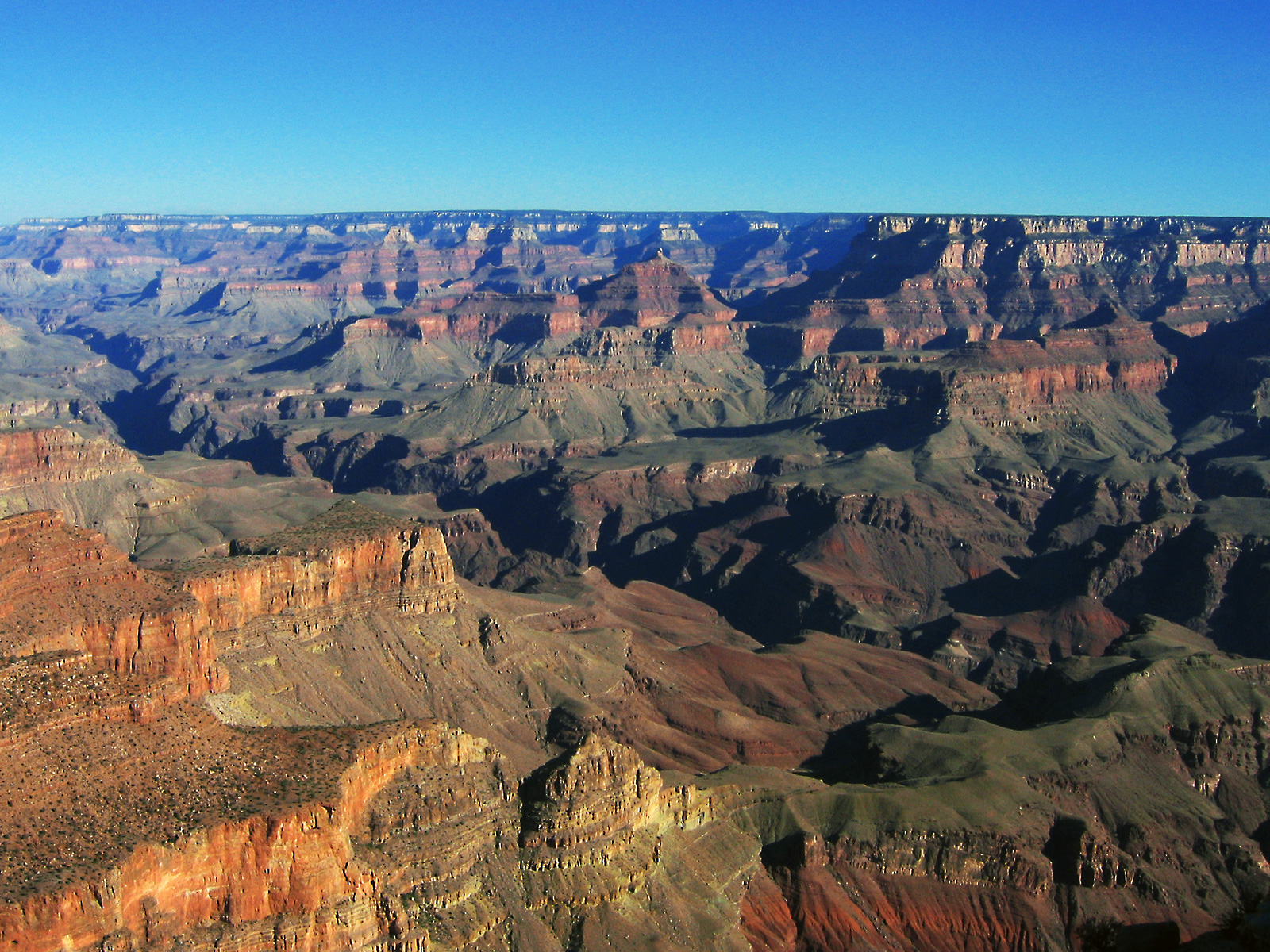 Grand Canyon seen from the south rim, July 2003.